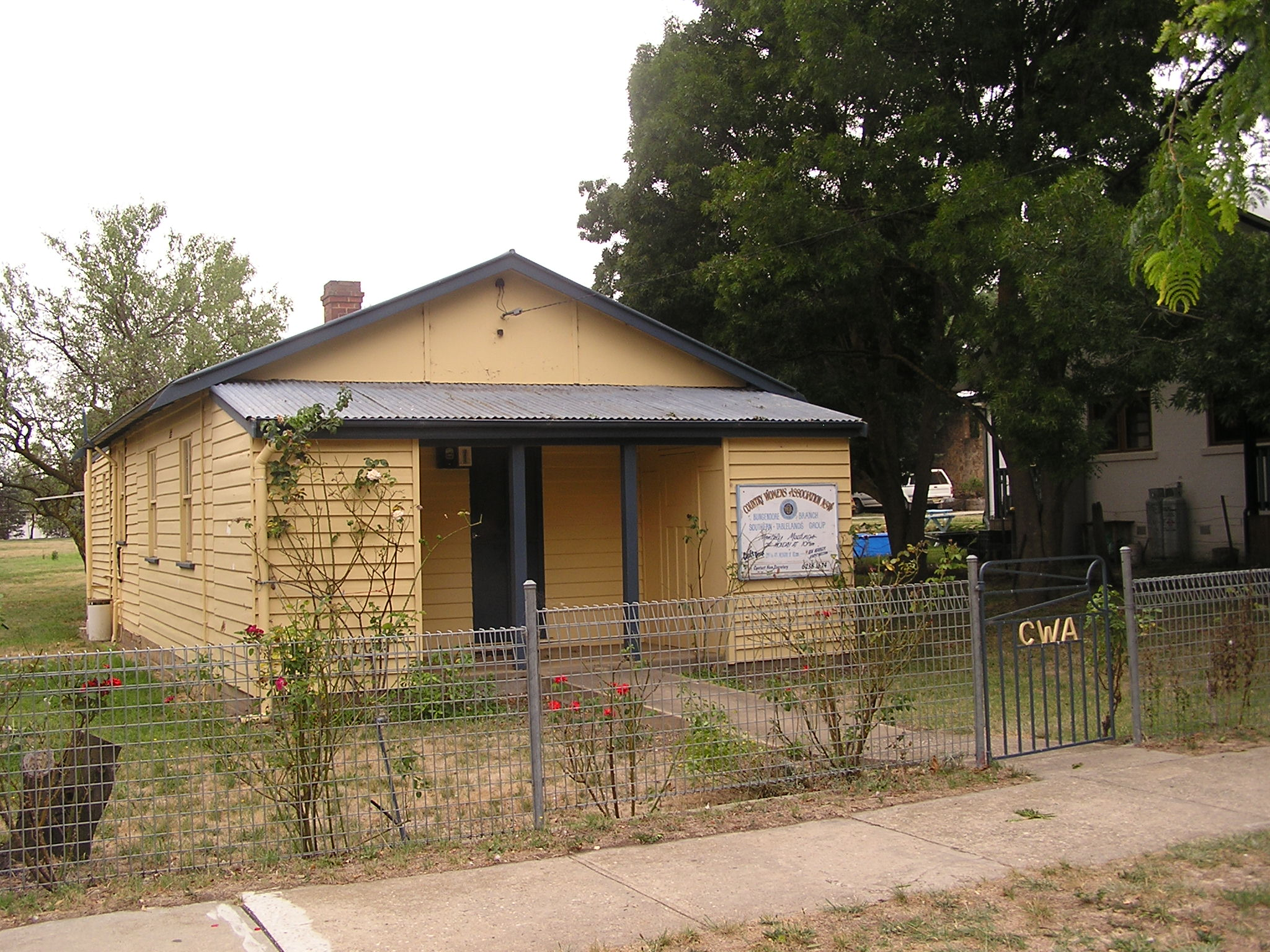 CWA (Country Women's Association) hall Bungendore, New South Wales, Australia Picture taken by AYArktos